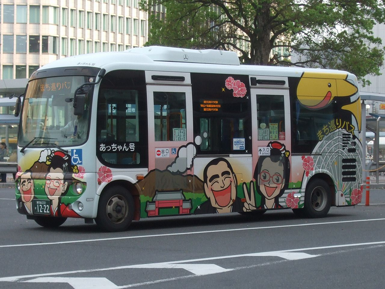 Kagoshima Machimeguri Bus operated by Kagoshima Kotsu Company:Kagoshima Kotsu Use:transit bus Car license:KO 200 KA 1222 Belongs to:Kagoshima Depot Chassis manufacturer:Hino Type:Poncho Coachbuilder:J-BUS Location:In front of Kagoshima Chuo Station, Kagoshima City, Kagoshima, Japan.